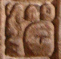 Maya glyph from Yaxchilan Lintel 15 describing Lady Wak Tuun as "Lady from Ik", thus describing her as a native of the Motul de San José polity (see Linda Schele drawings collection at FAMSI